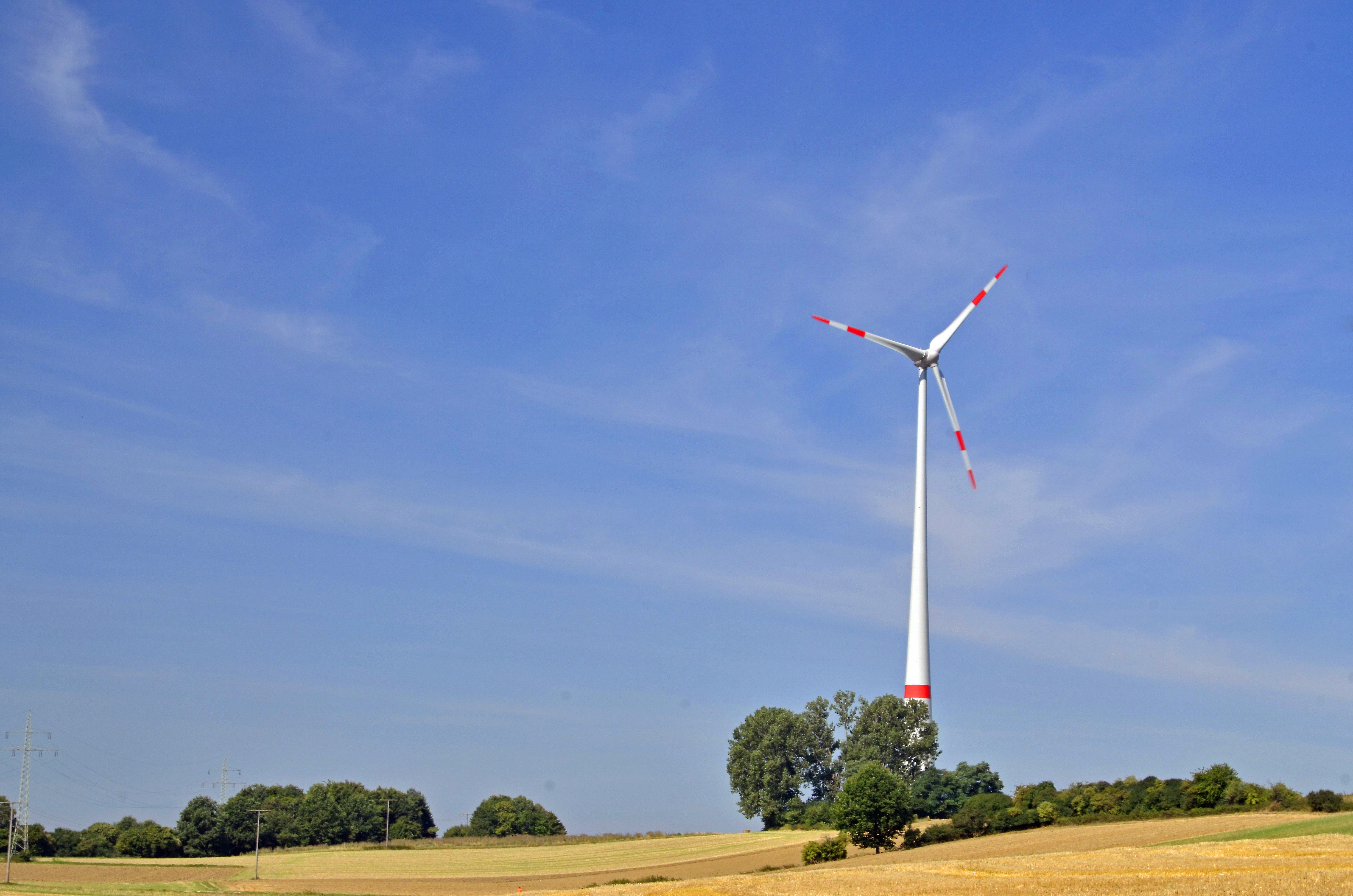 Wind turbine near Dachau